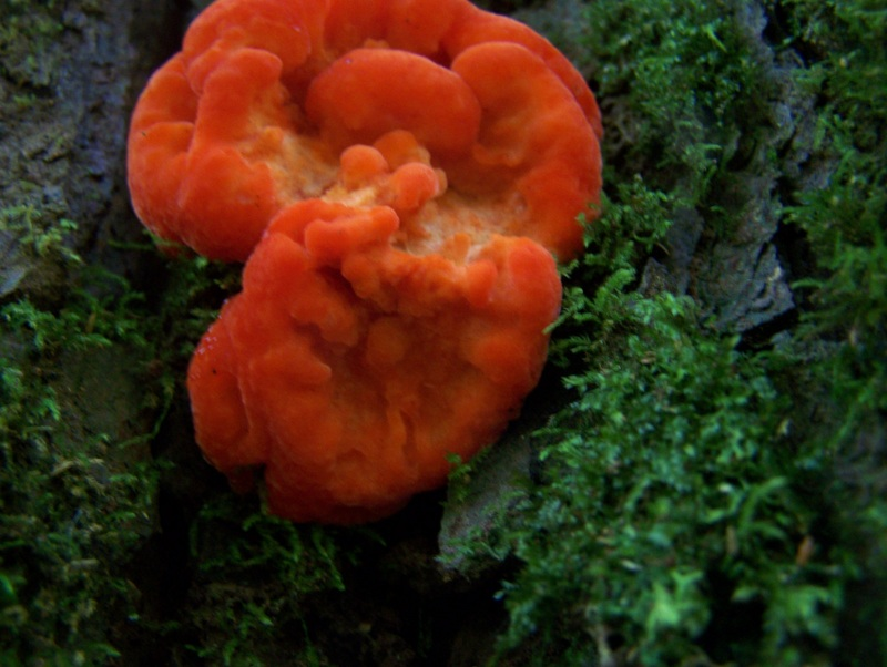 Aurantiporus pulcherrimus on Nothofagus cunninghamii in the Upper Florentine Valley, photo taken February 2012.